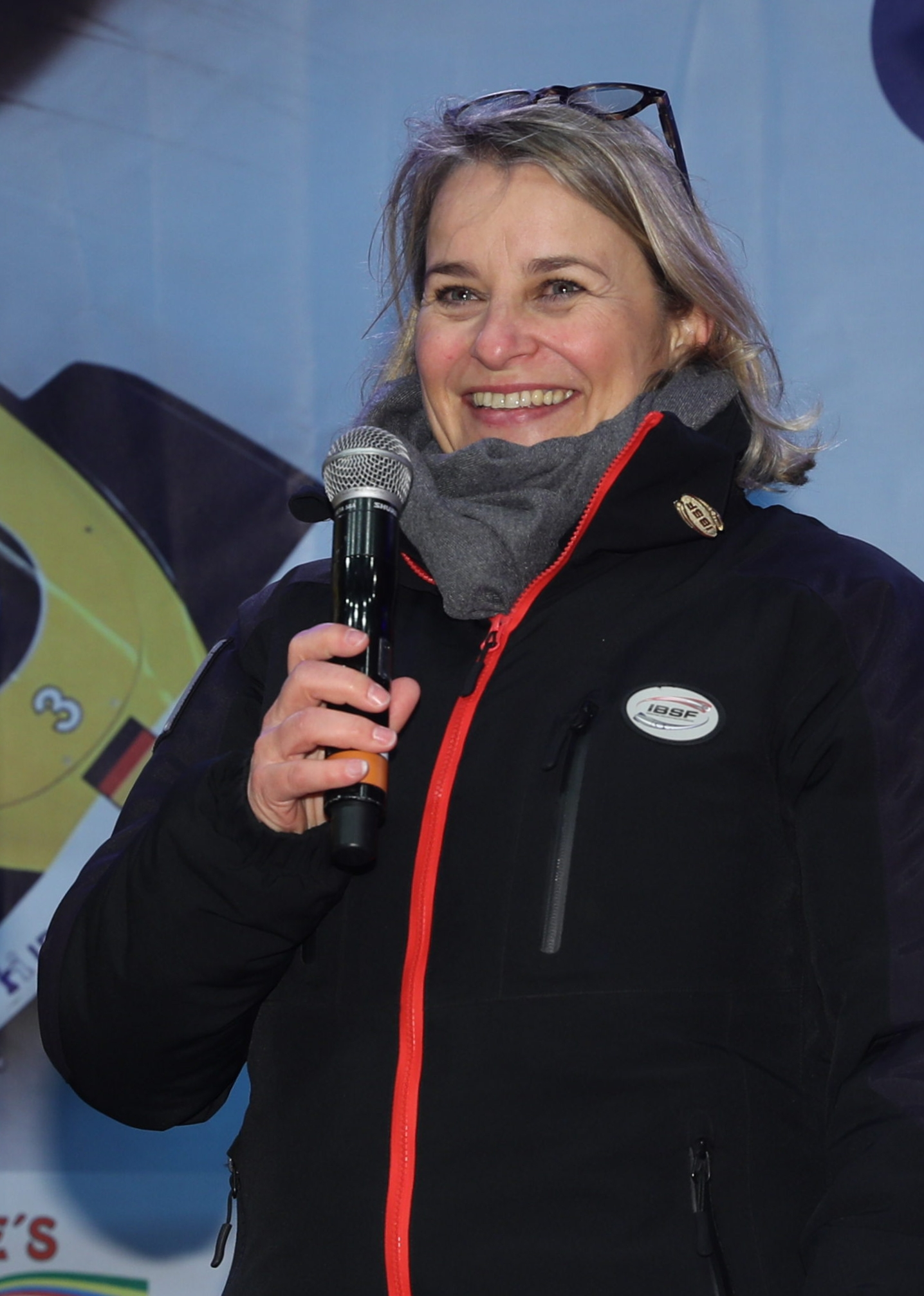 Opening Ceremony at the Bobsleigh and Skeleton World Championships 2020 in Altenberg